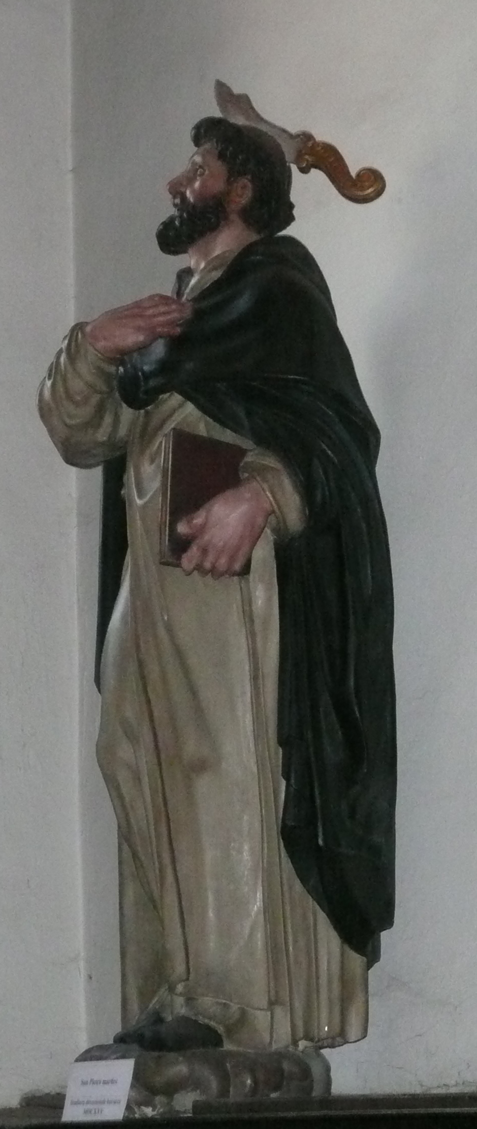 Sculpture of Peter of Verona ( =Petrus Martyr), Domican. Milan